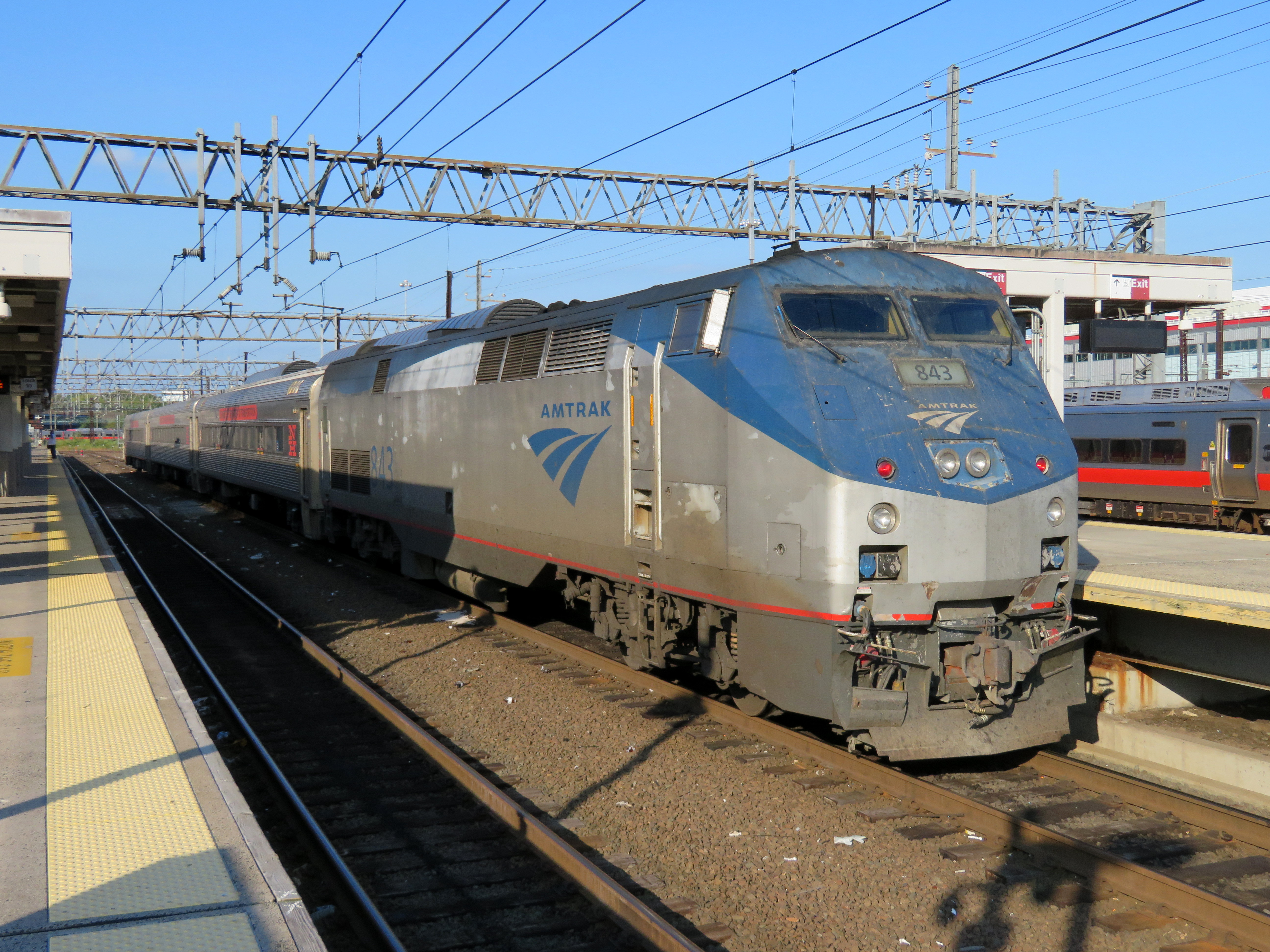 Shore Line East train at New Haven Union Station in September 2018